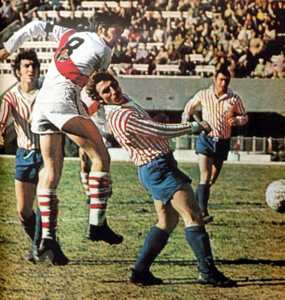 Los Andes vs. River Plate, covered on El Gráfico.